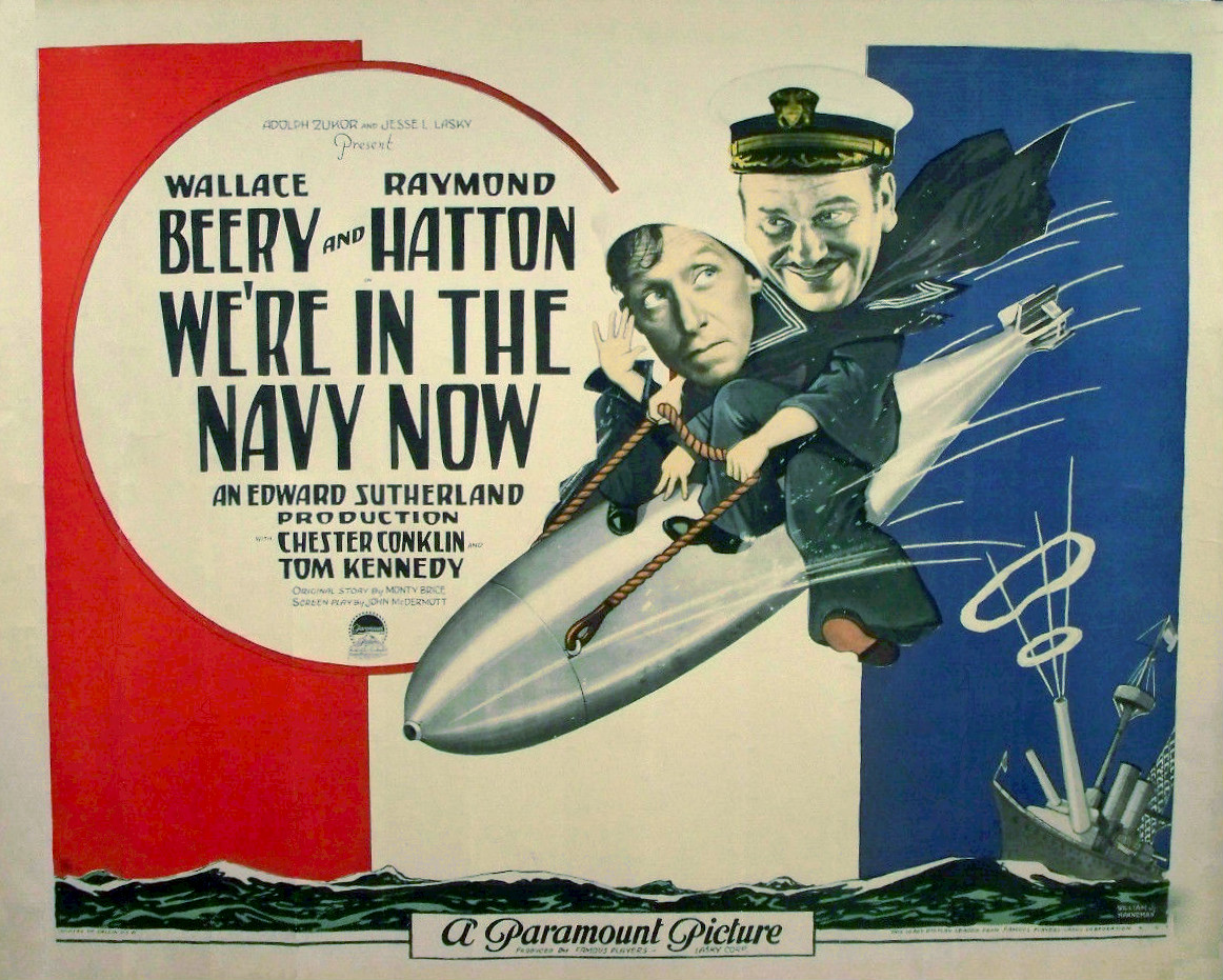 Lobby card for the American comedy film We're in the Navy Now (1926). The item has no copyright markings on it as can be seen in the links above and the uncropped original upload. At bottom left is Country of Origin USA. At bottom right is This lobby display leased from Famous Players-Lasky Corporation.